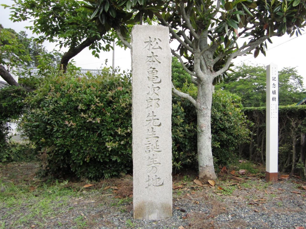 The birthplace of Matsumoto Kamejirō in Kakegawa, Shizuoka.